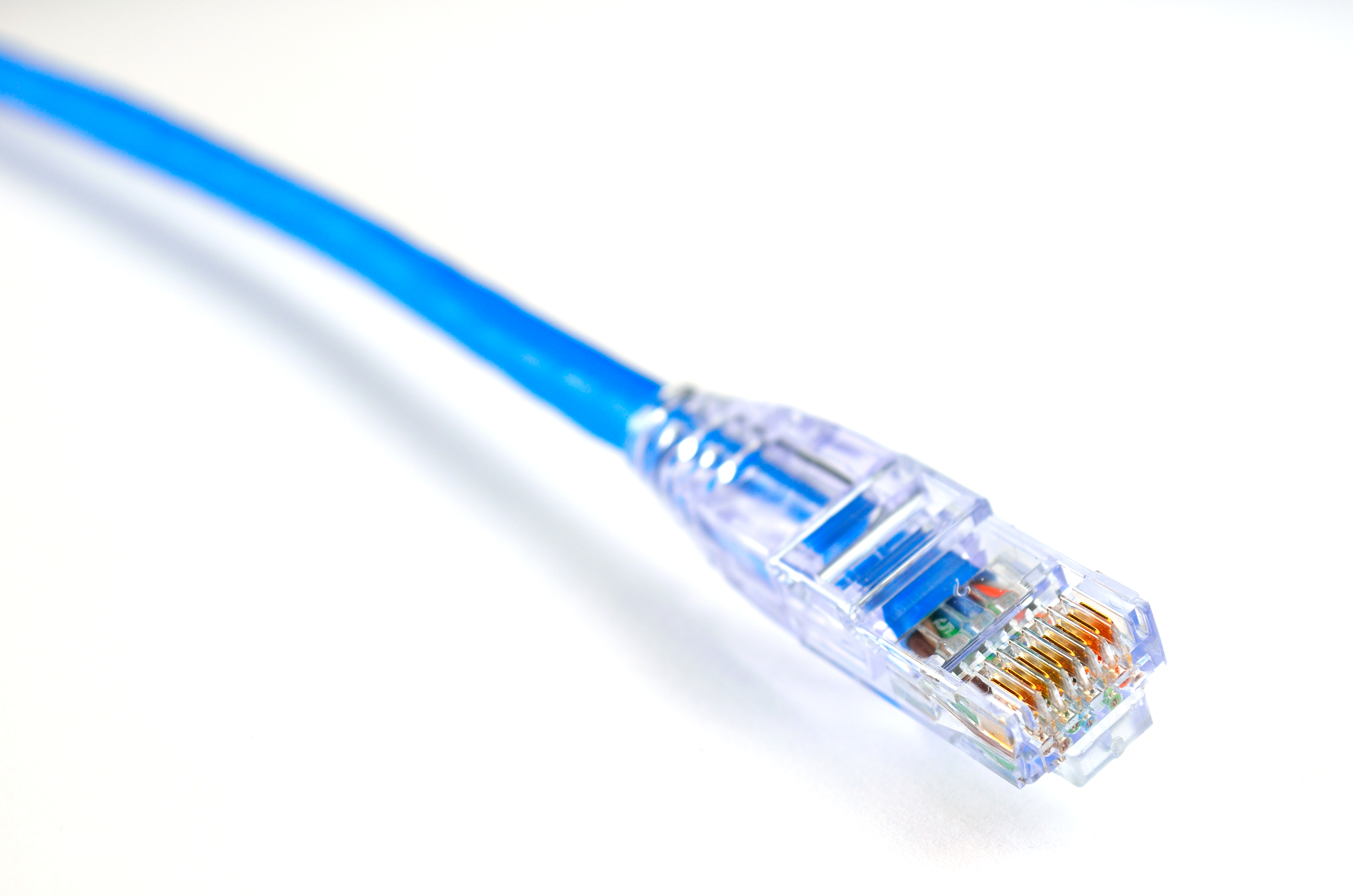 Blue ethernet cable